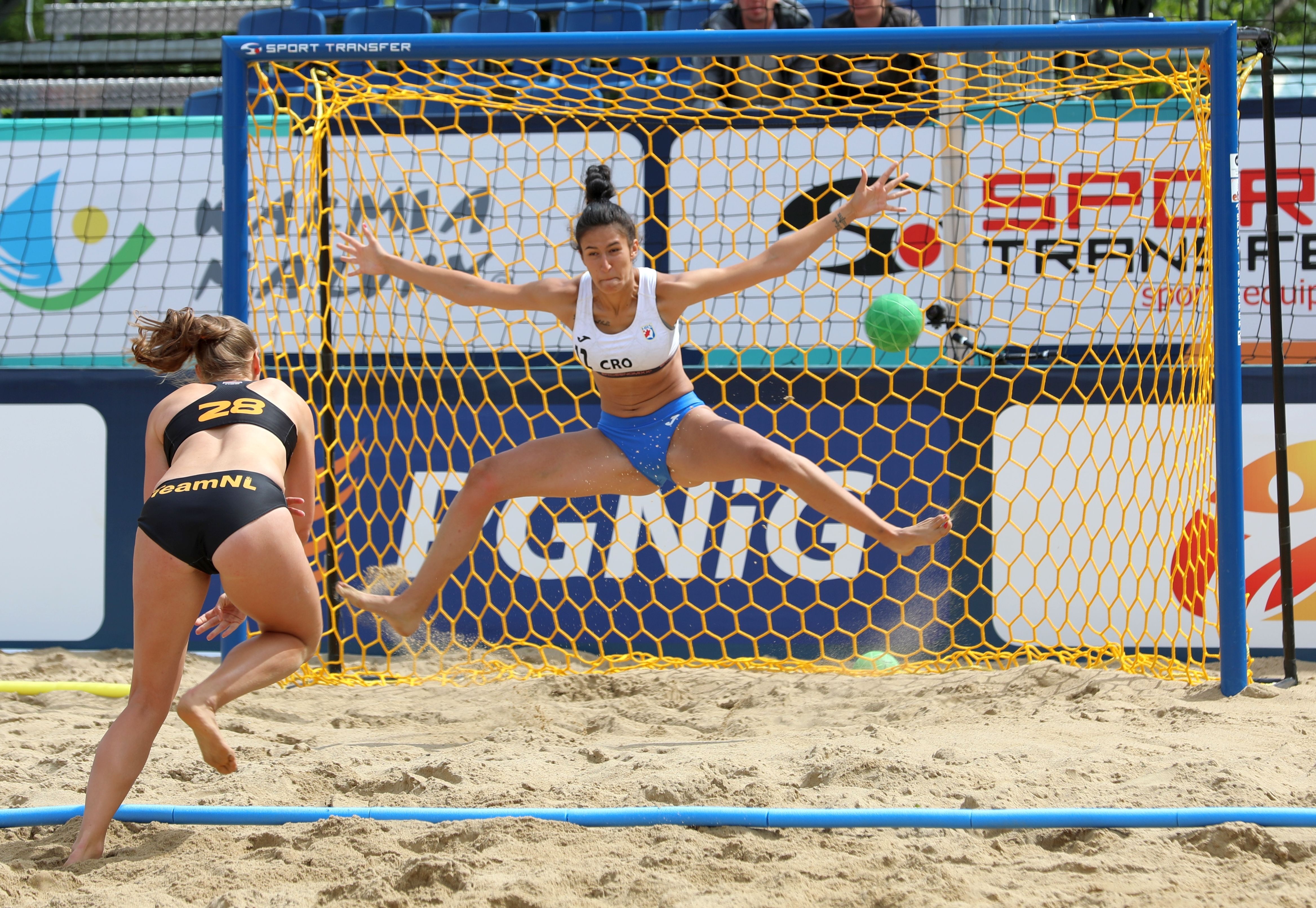 Beach handball Euro; Day 6: 7 July 2019 – Women's Bronze Medal Match – Croatia-Netherlands 0:2 (14:23, 20:22)